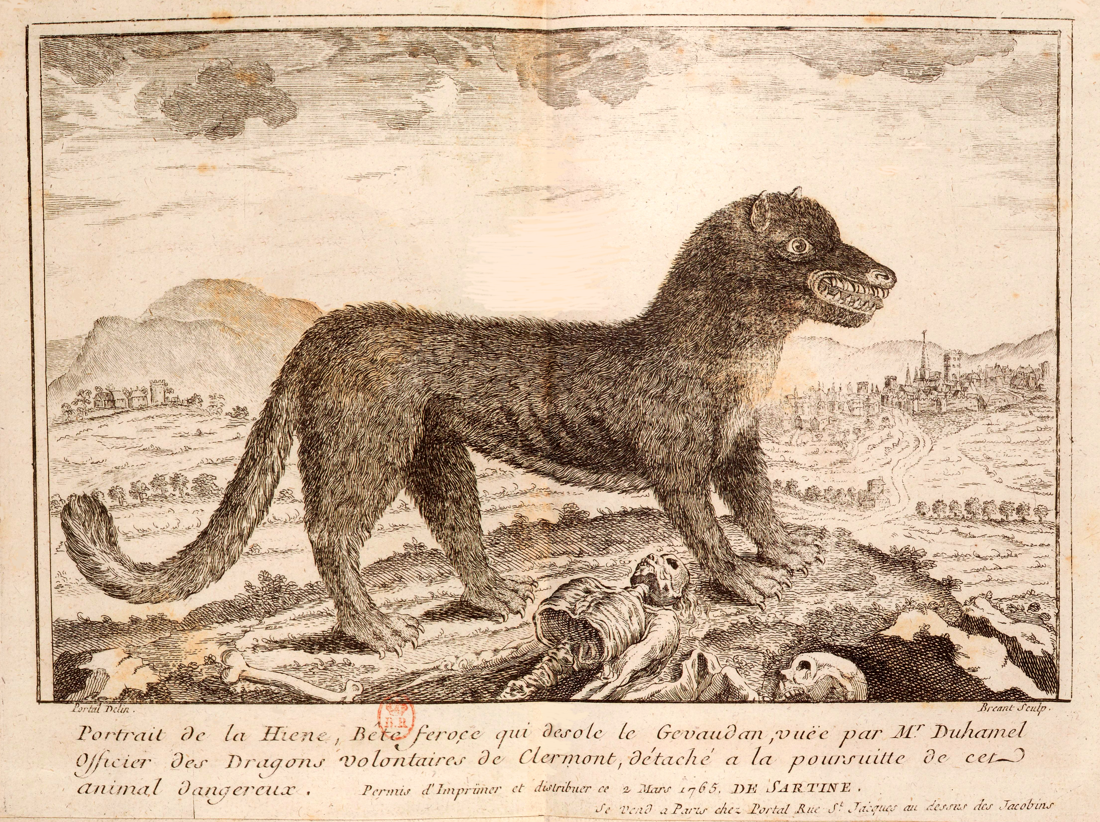 18th century print depicting the Beast of Gévaudan.